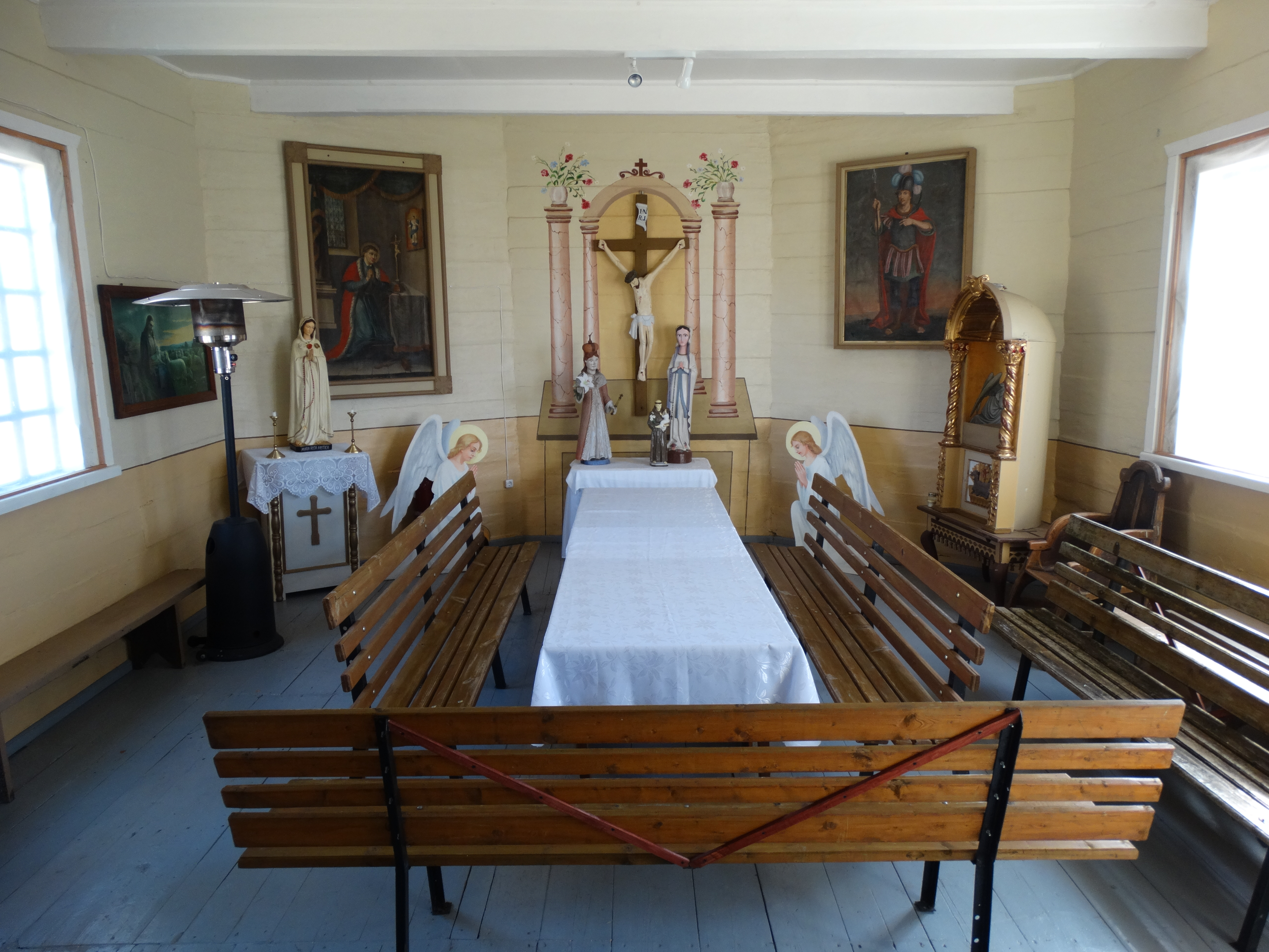 Alsėdžiai churchyard chapel, Plungė District, Lithuania